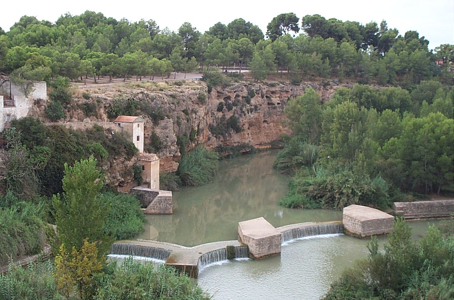 Diversion dam on Millars River at Vila-real, Spain.